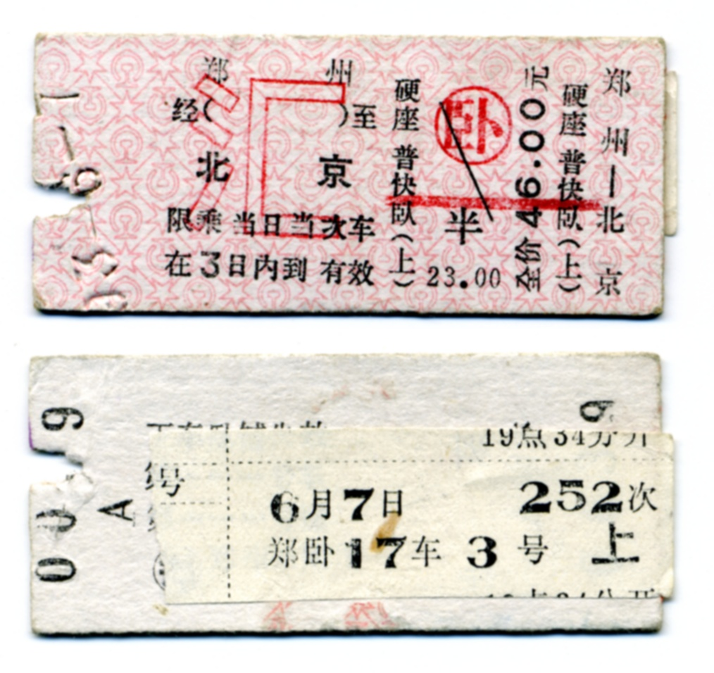 Zhengzhou to Beijing sleeper railway ticket (front and back) from 1993-06-07. Before the advent of point of sale ticket printing, bulk tickets were printed for each route on cardboard. A tissue thin paper with the exact date was applied when sold. The ticket was punched at the destination. 55 x 25 x 1 mm